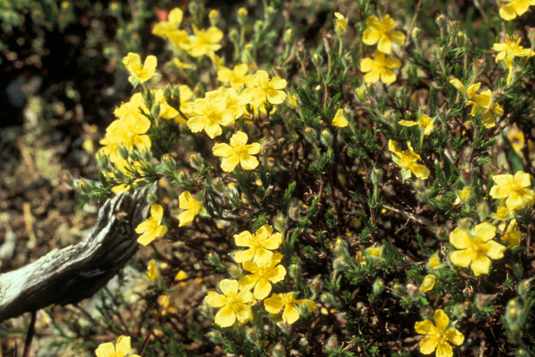 Hudsonia montana USFWS photo